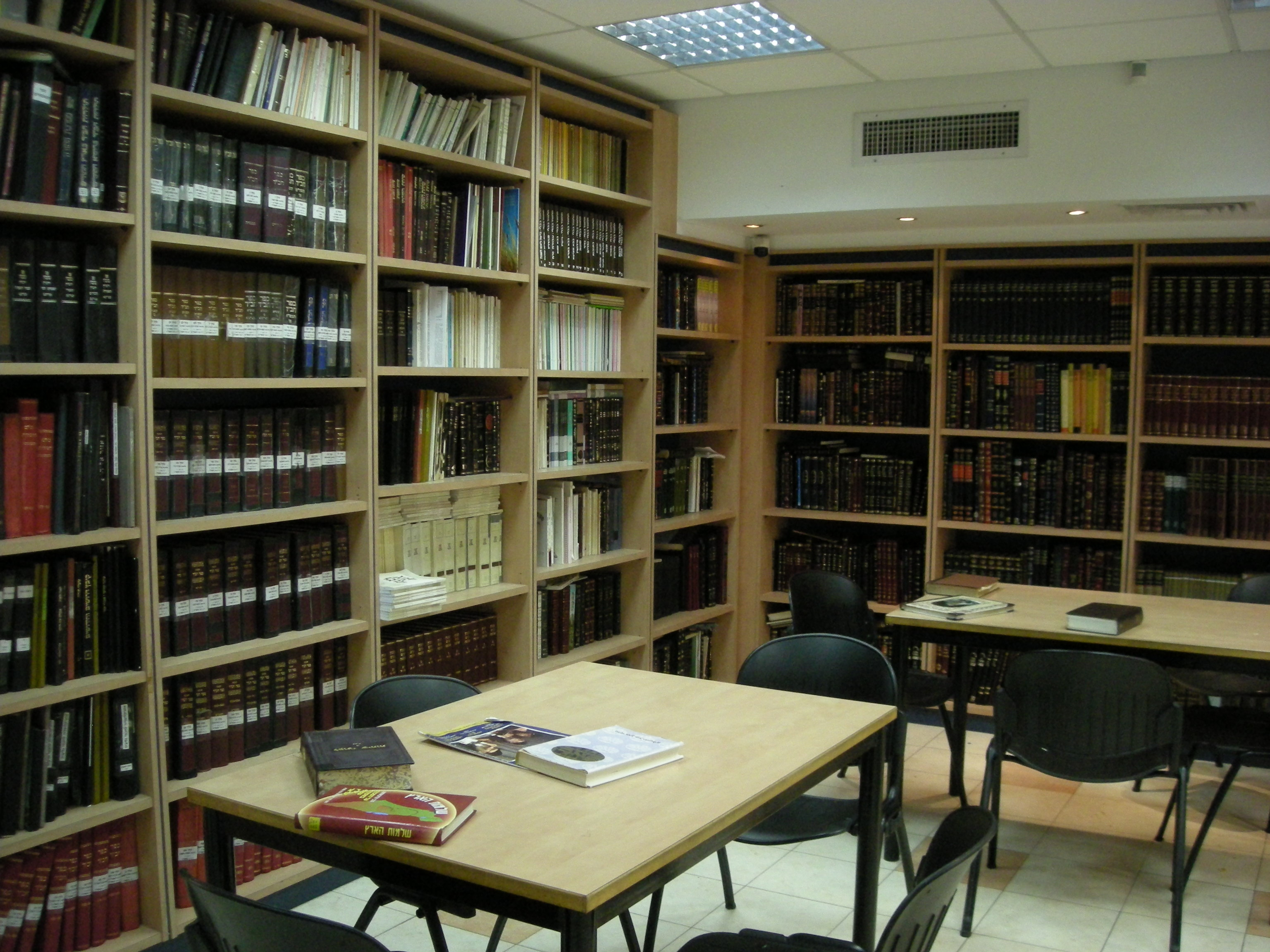 A public Chassidic (Chabad) library in Bnei Brak